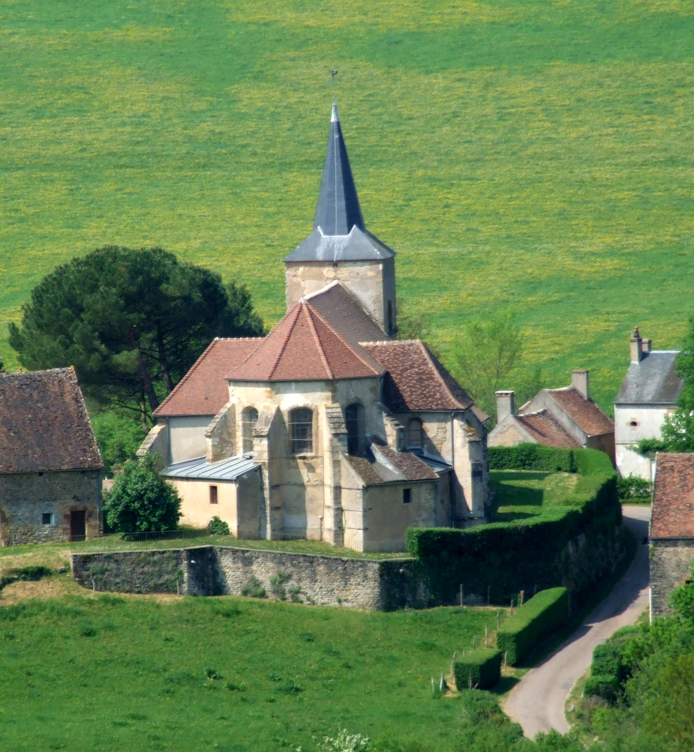 Saint-Hilaire church, Bazoches, Nievre, Burgundy, FRANCE